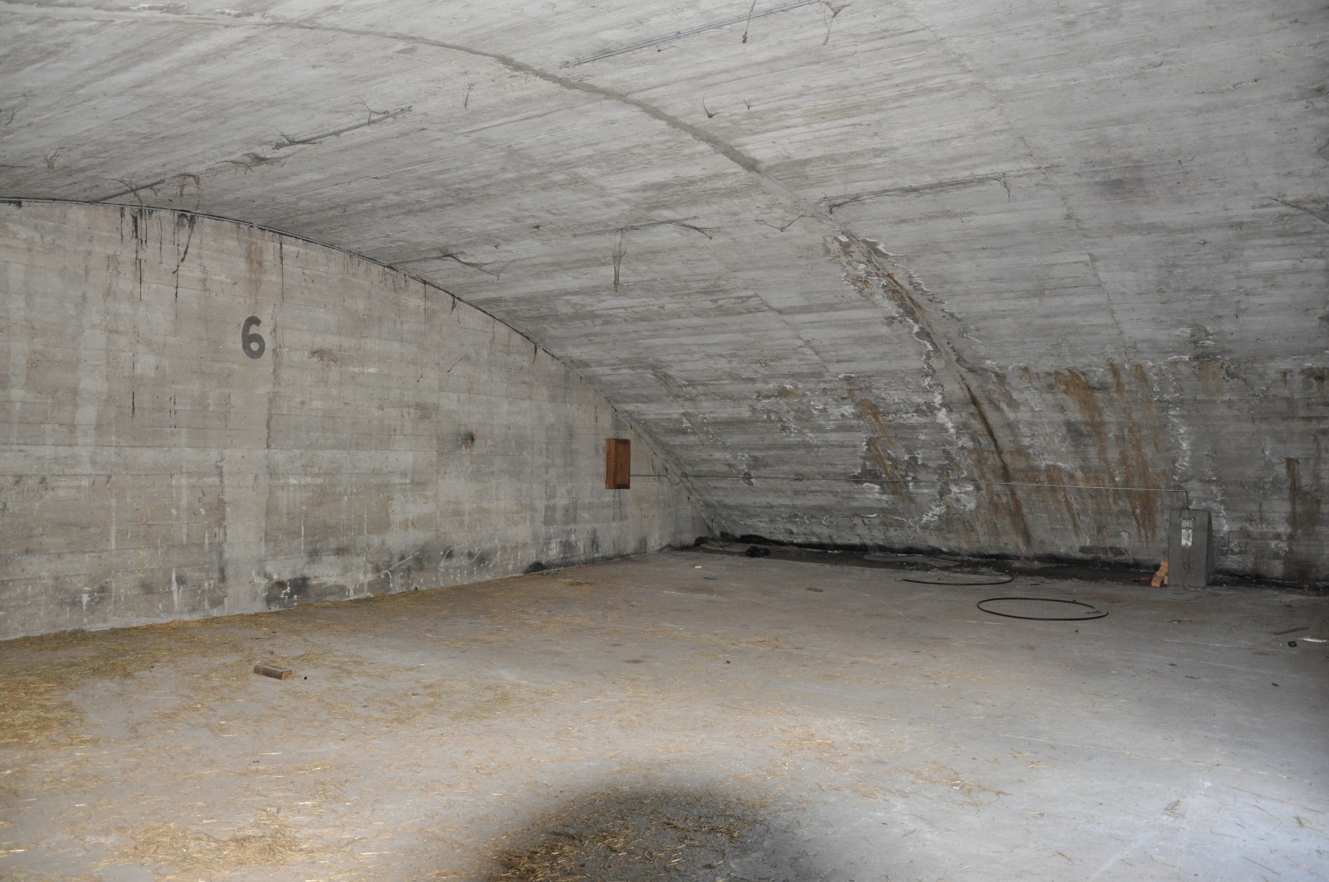 Inside hangar (right part) 6 at Raron airfield (LSTA)